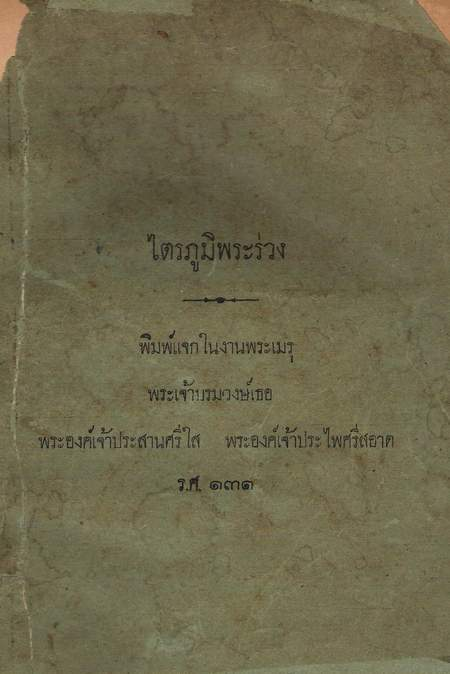 [Tri Poom Pra Ruang] (Three worlds by ancient holy king Pra Ruang) cover from Project : 88 Good Science Books of Thailand (before 1994) by Thailand Research Fund Knowledge book number 69